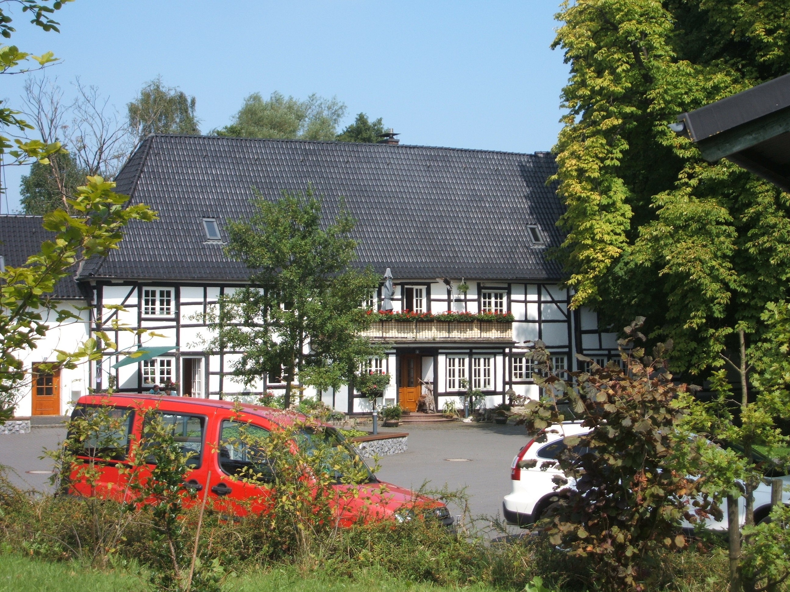 Historical House Laubach (Mettmann)